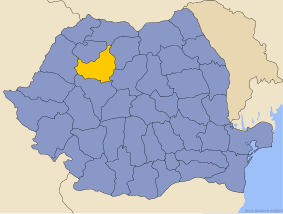 Location of Cluj County in Romania.